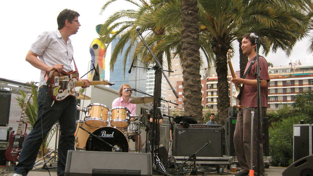 Darren Hayman and Jack Hayter playing Hefner Parc Joan Miró 2008